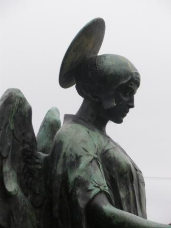 Study of sculpture by Gilbert Bayes in the churchyard of St James Church in the village of Warter, East Riding of Yorkshire, England, in the Yorkshire Wolds; two bronze statues being memorials to the first Lord Nunburnholme who died in 1907 and his youngest son Gerald who died in Paris in 1908 at the age of 23. The two bronze statues originally stood in the Italian Garden at Warter Priory where the two were buried until moved to St James Church in 1929 when the Warter Priory was sold.